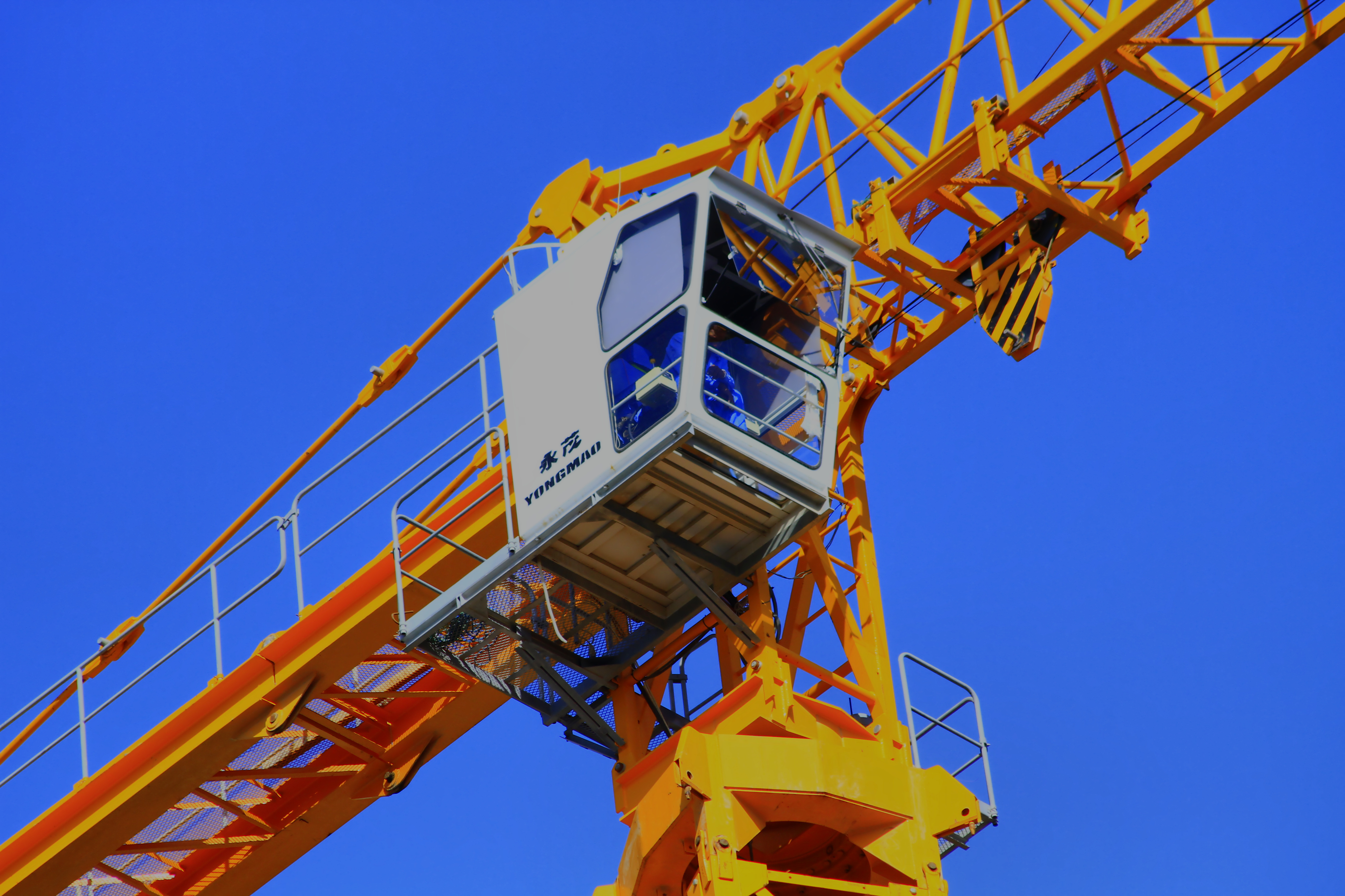 Tower crane operator cabin